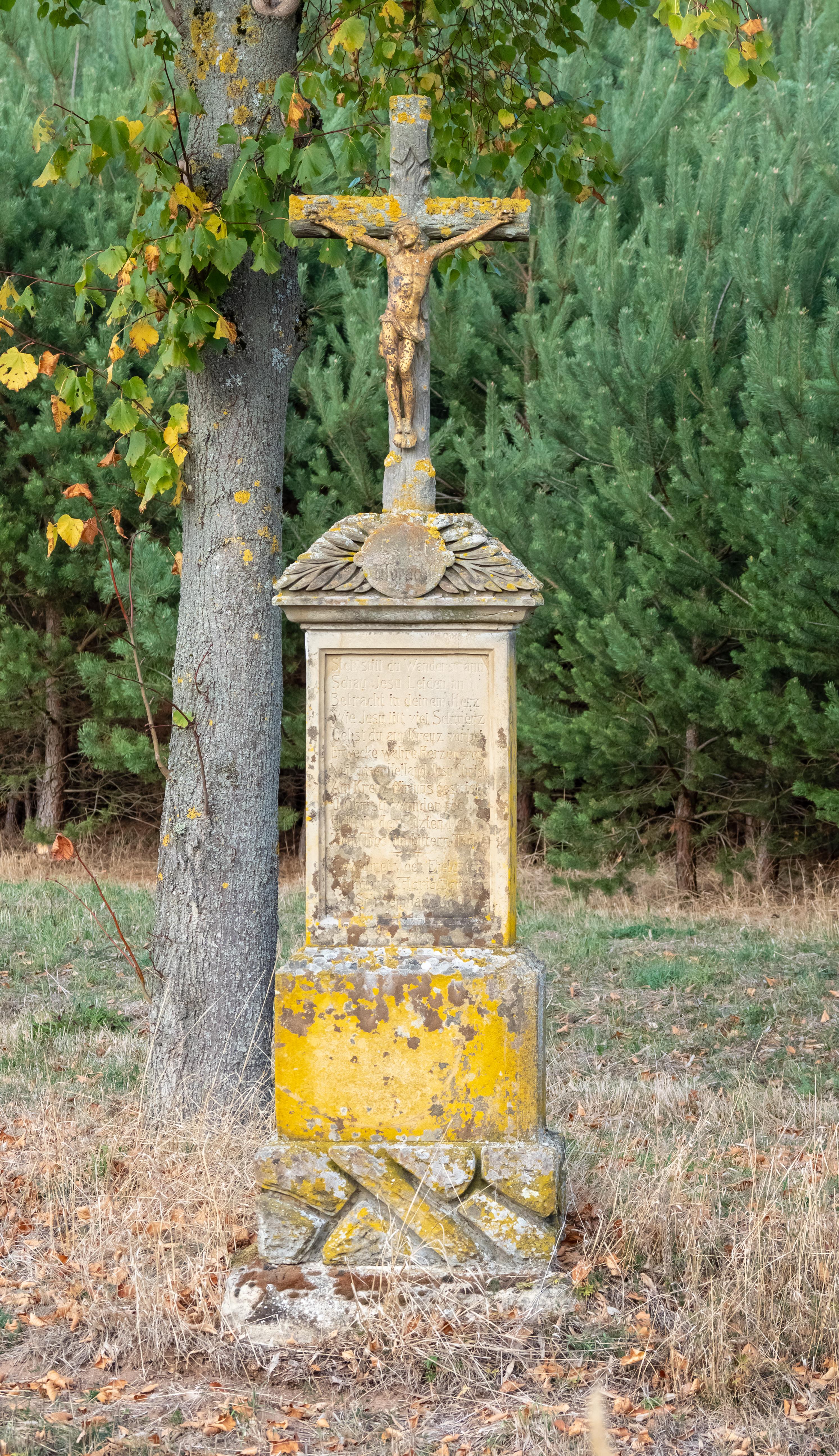 Crucifix in Schweinbach near Pommersfelden